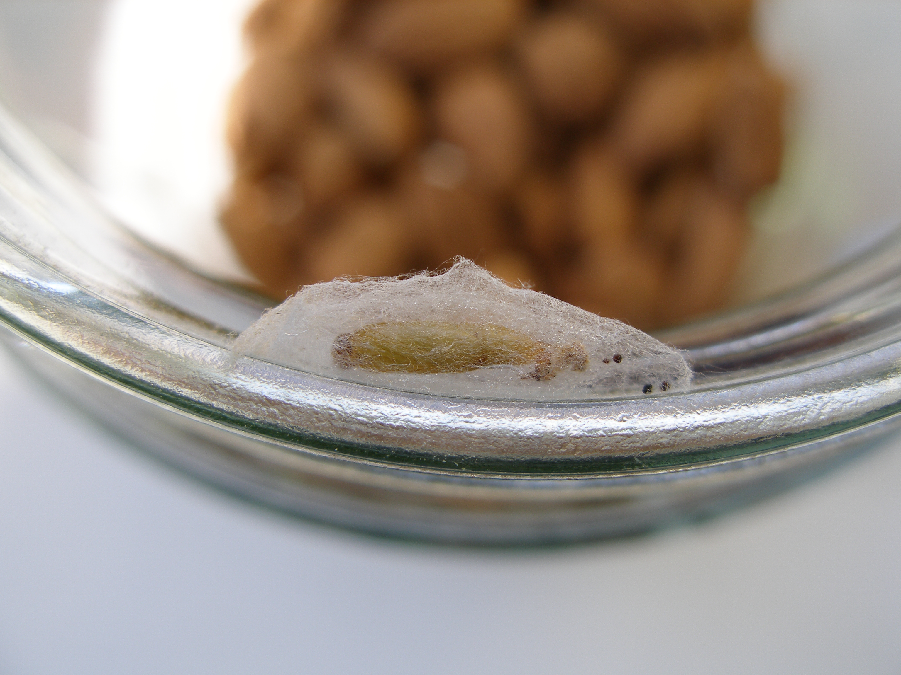 Coocoon of some flying insect. The larvae has placed itself just under the lid of a glass filled with almonds. The coocoon was alive while being photographed. Picture taken in Leikanger, Sogn og fjordane, Norway.